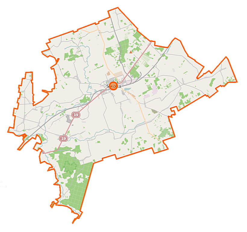 Map of Gmina Sokółka, Poland This map of Sokółka (gmina) was created from OpenStreetMap project data, collected by the community. This map may be incomplete, and may contain errors. Don't rely solely on it for navigation. Border coordinates53.498323.2917←↕→23.742853.2455